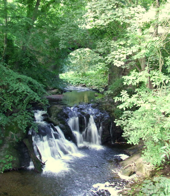 Falls and bridge at Arbirlot, Angus